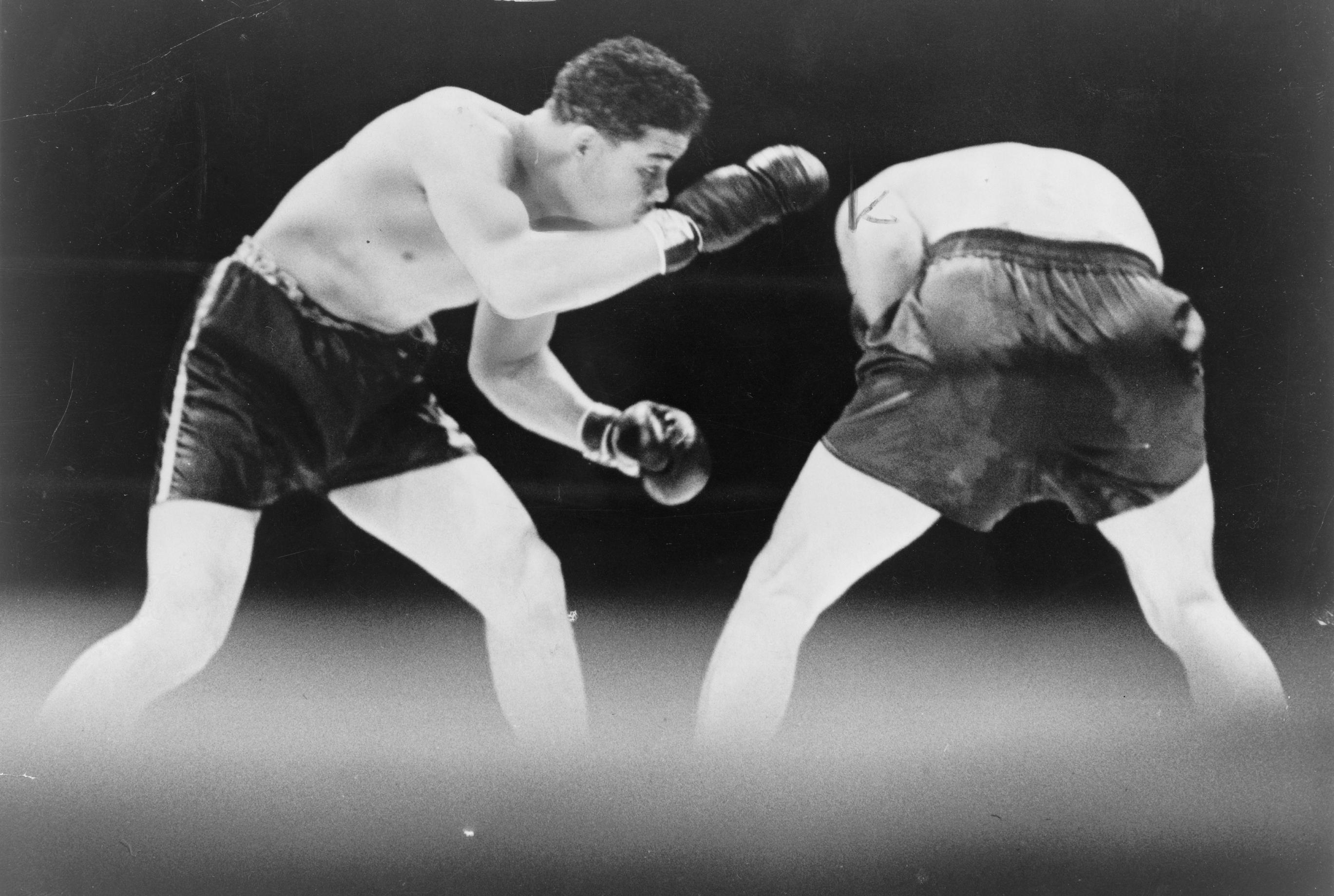 Joe Louis looks for an opening during boxing match with Max Schmeling